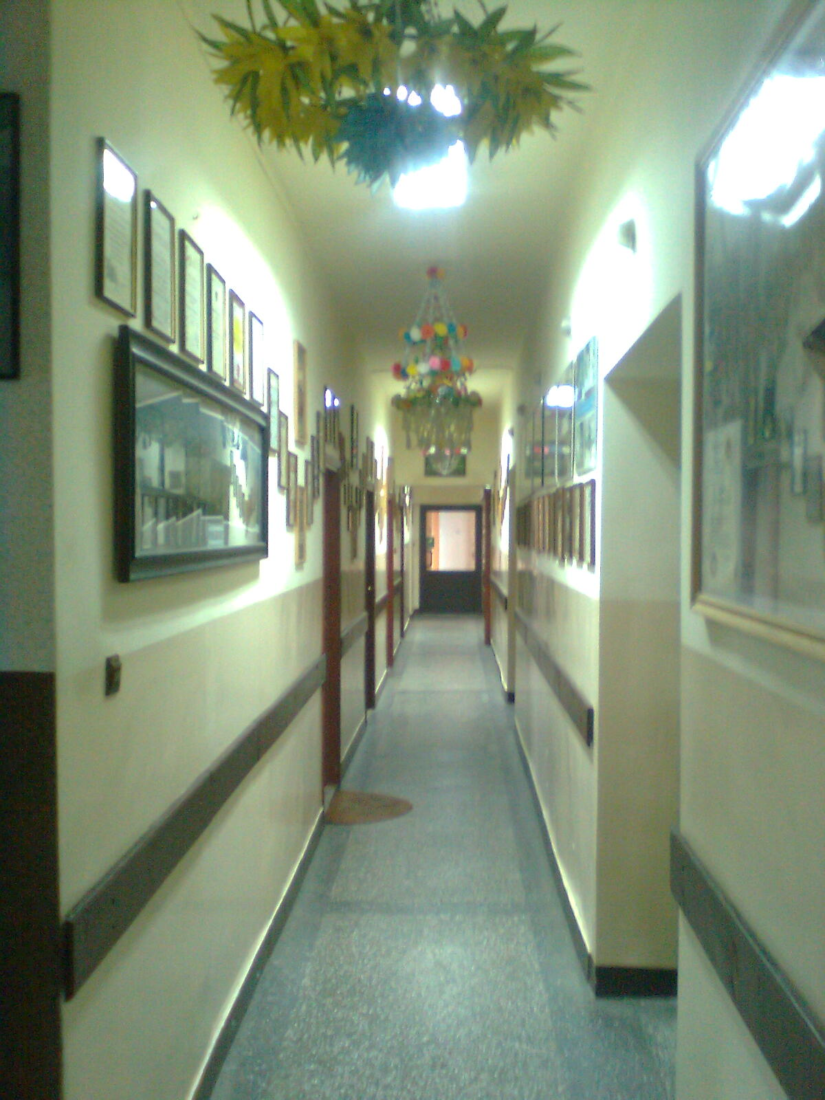 Corridor in Community Centre in Podegrodzie